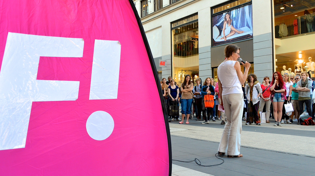 Party leader Gudrun Schyman, Feminist Initiative, holding squares meeting at Sergel's Square in Stockholm for the European elections in May 2014.